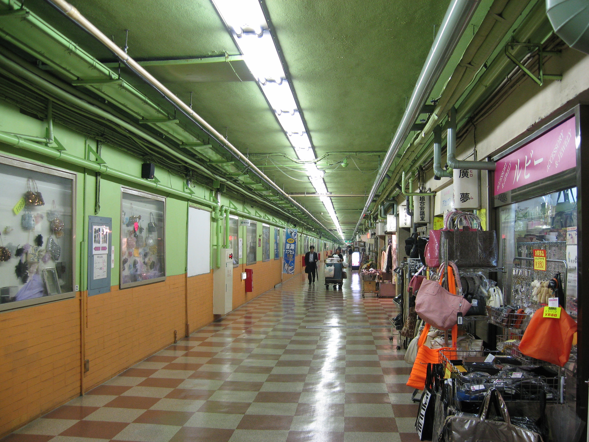 Fushimi Underground Shopping Street in Nagoya, Aichi, Japan